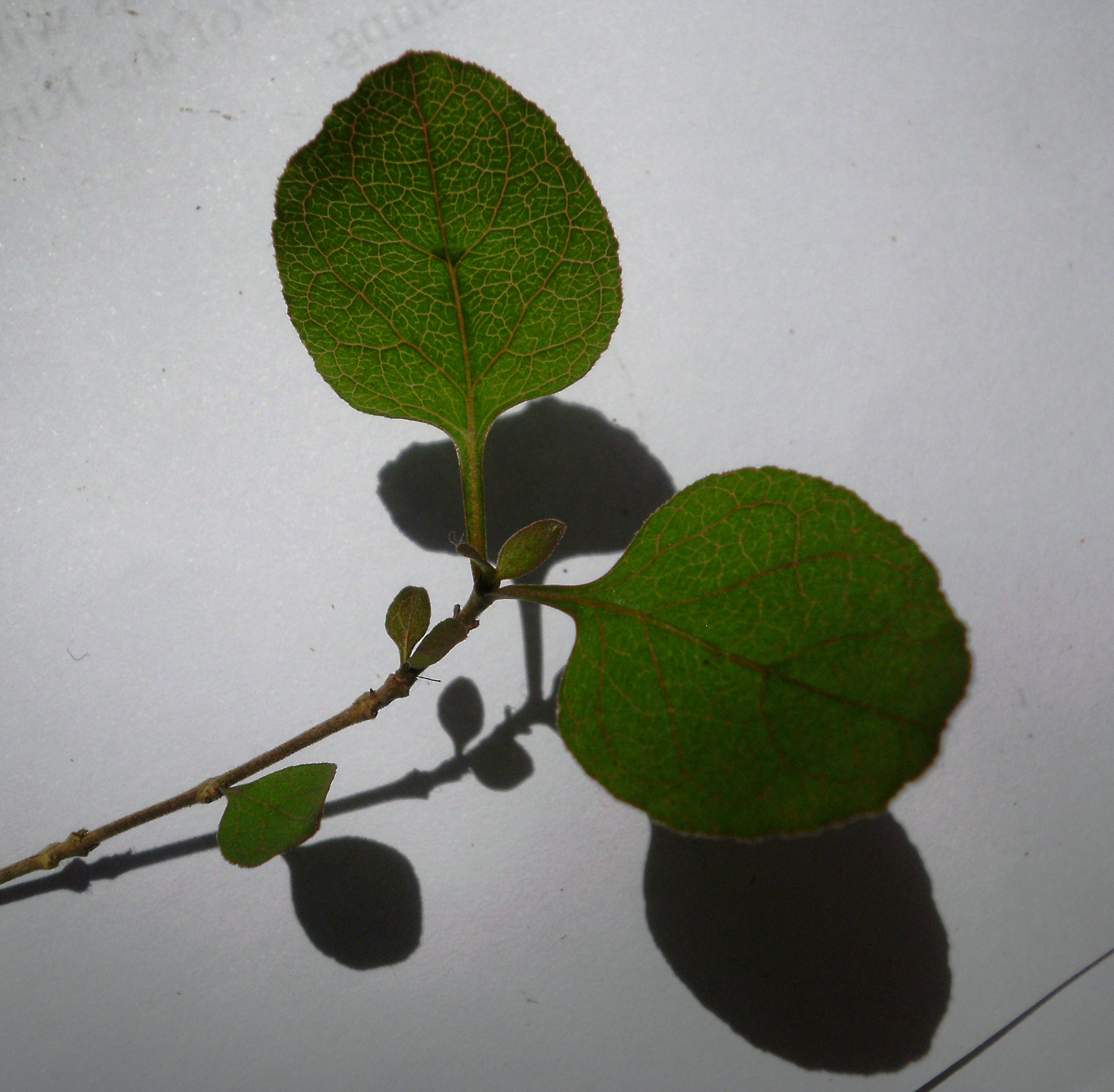 Coprosma rubra, close up of leaves.